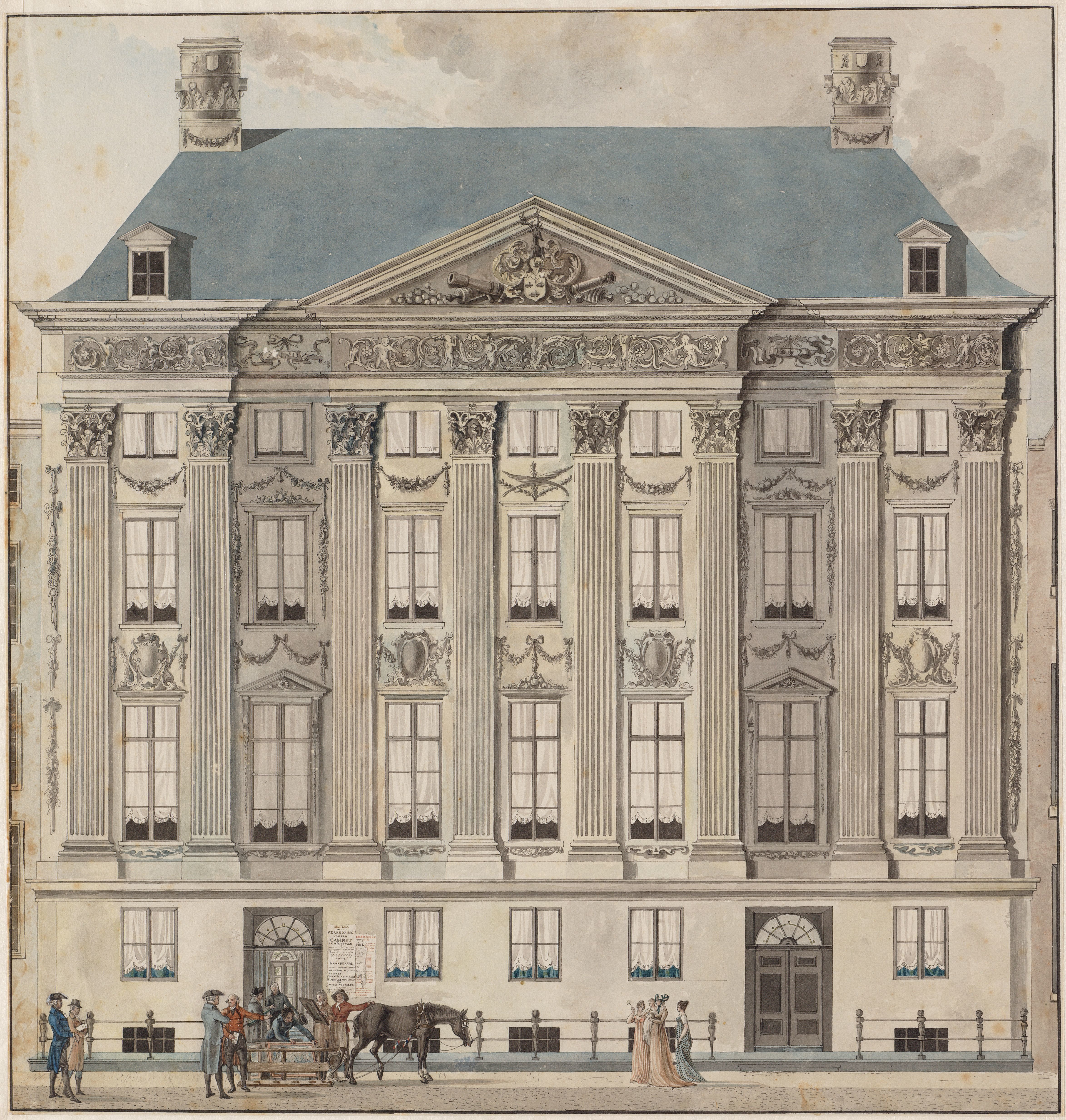 Gable View of the Trippenhuis, Reinier Vinkeles, 1803, drawing, Stadsarchief Amsterdam